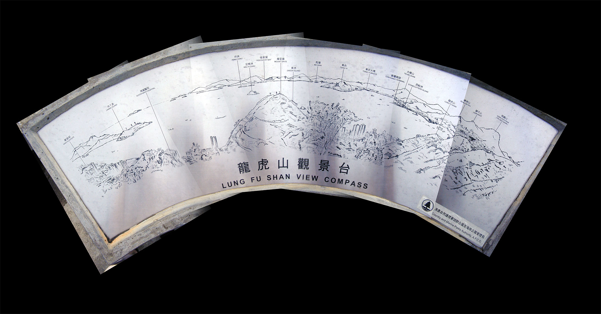 Photo of Lung Fu Shan View Compass, combined from 89178877, 89178895, 89178929, 89178947, 89178965 and 89178989.